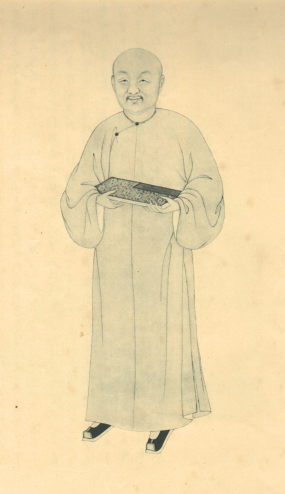 HUANG Yi, scholar of the Qing Dynasty.